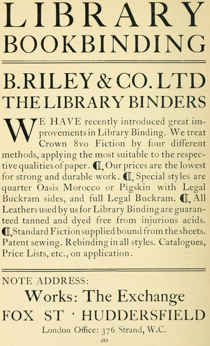 An advertisement for library bookbinding